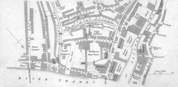 A drawing and map of Jacob's Island, a notorious slum from Victorian England, today a part of Bermondsey, London